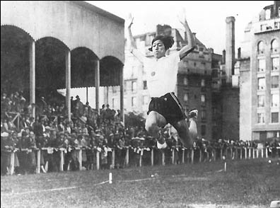 Kinue Hitomi marked World record of jump in Gothenburg